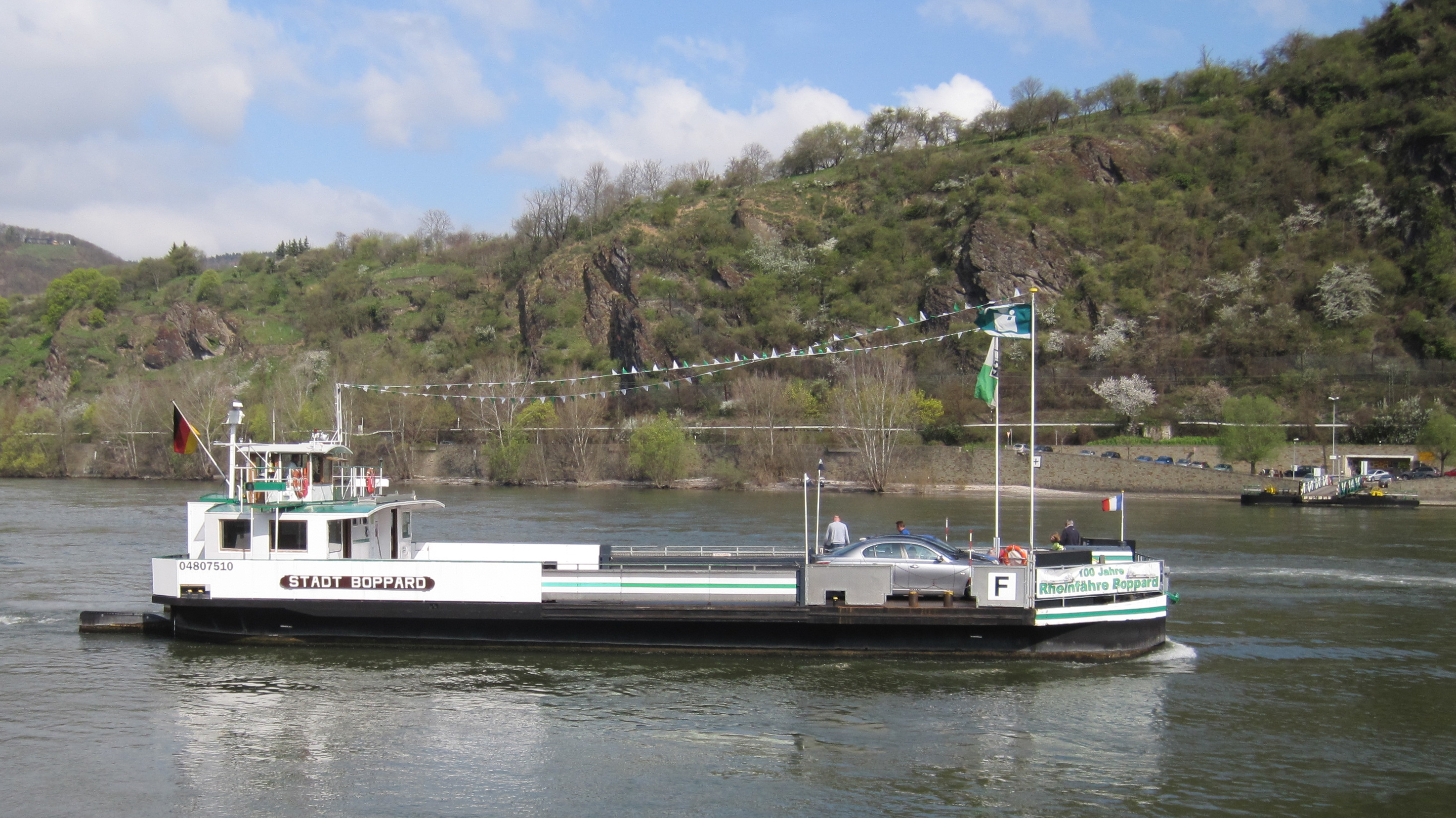 Rhineferry "Stadt Boppard". Construction year: 1892. Boppard, Rhineland-Palatinate, Germany